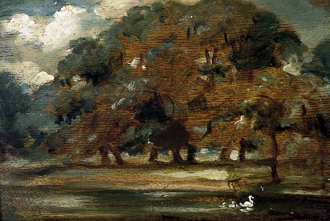 Ponds in the foreground with some ducks right centre; trees beyond.